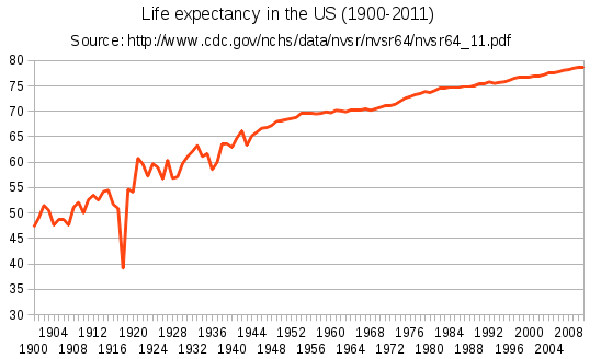 Life expectancy in the US 1900 - 2011